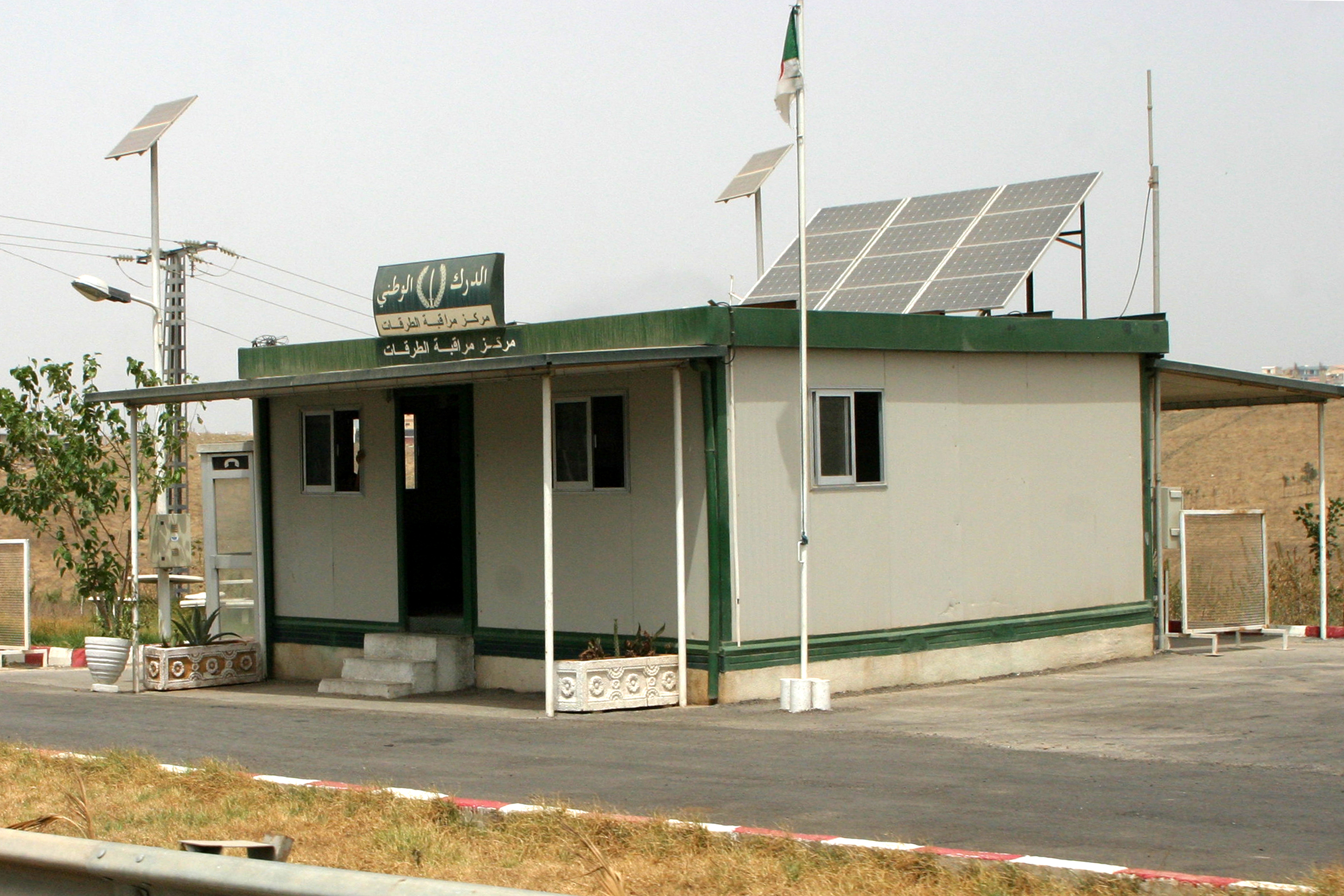 Full story: القصة l'histoire